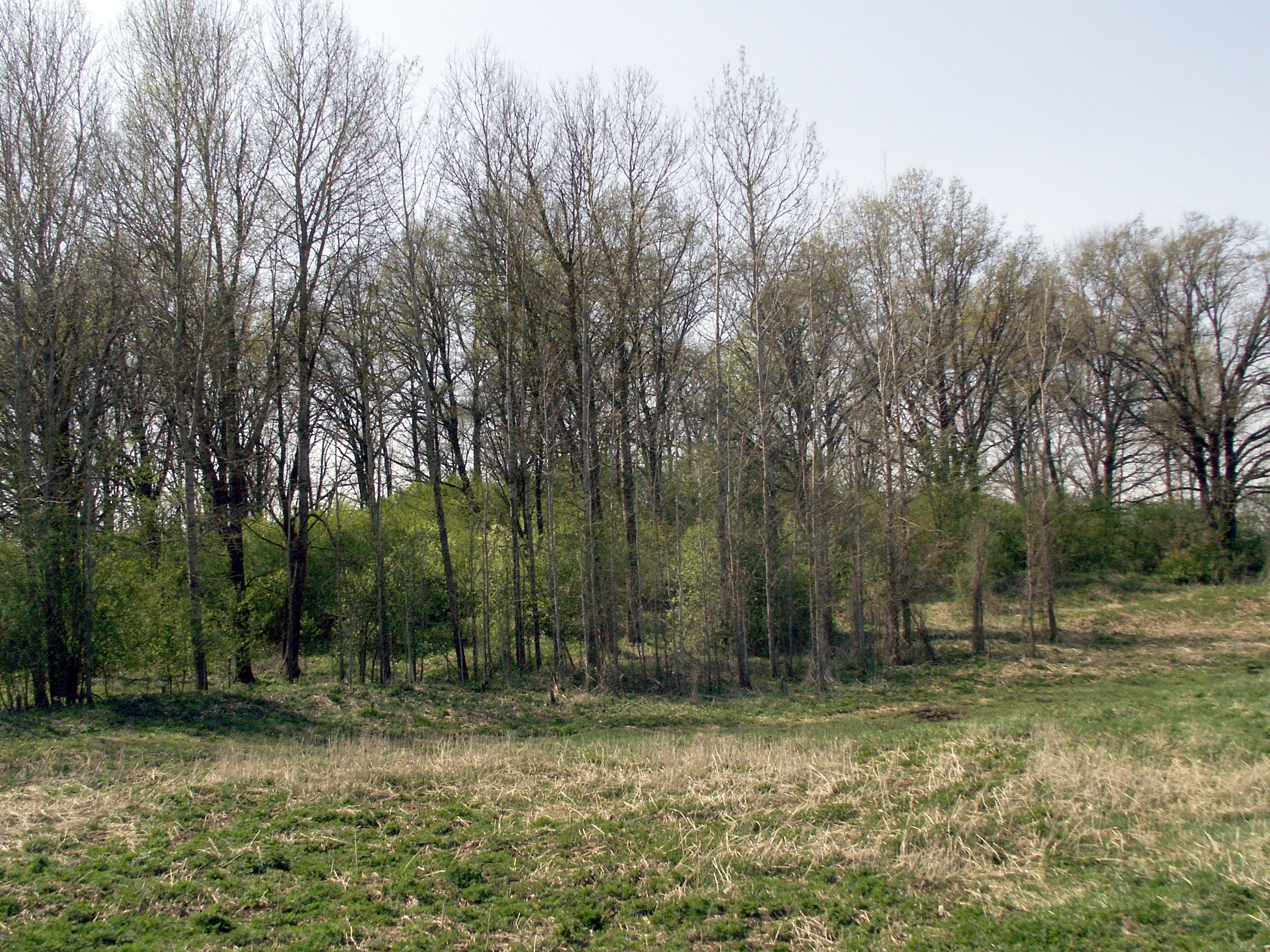 Dubičių hillfort, Varėna district, Lithuania